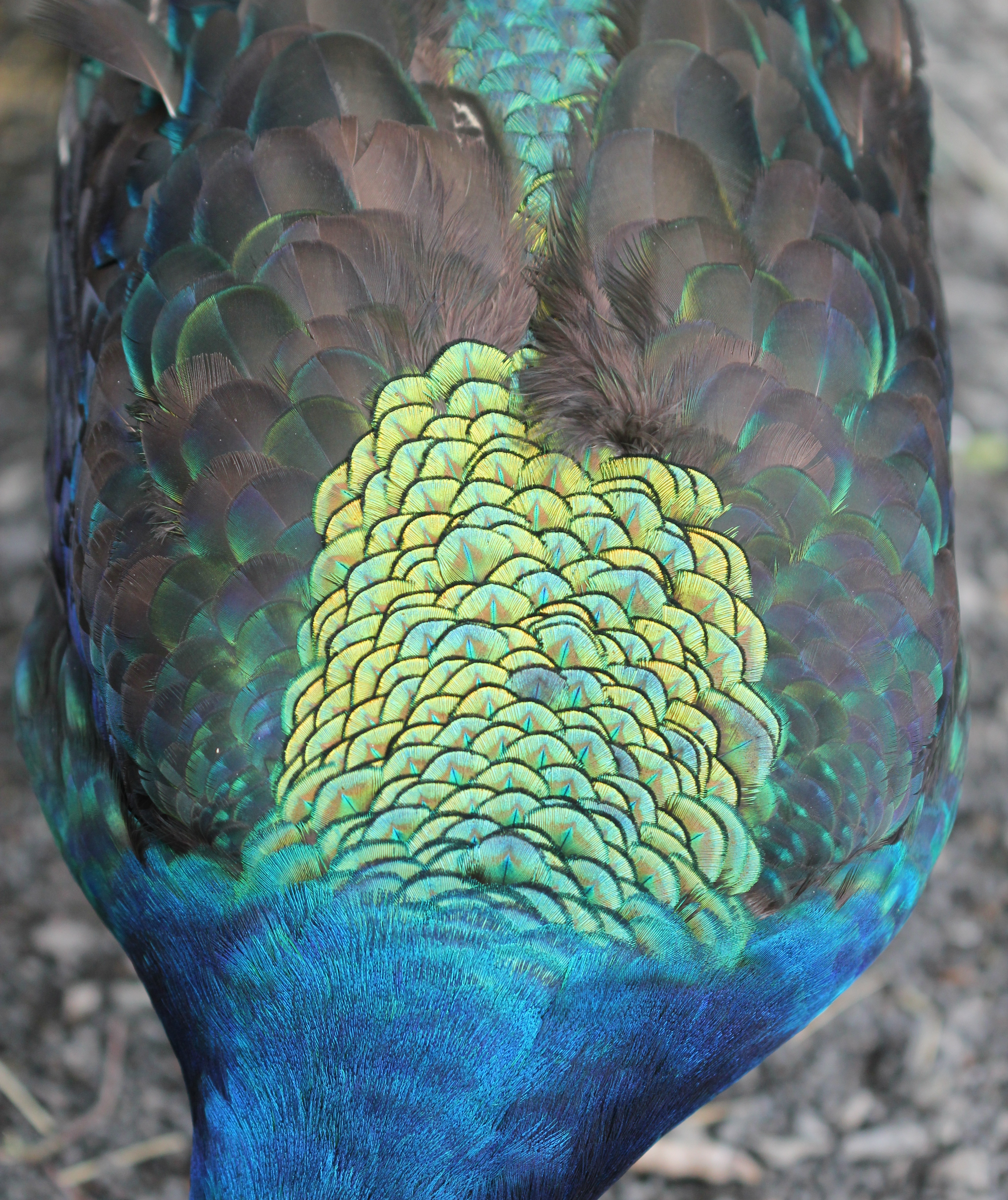 Back of male Indian Peafowl (Pavo cristatus). Photo taken at Franklin Zoo, near Auckland, New Zealand.